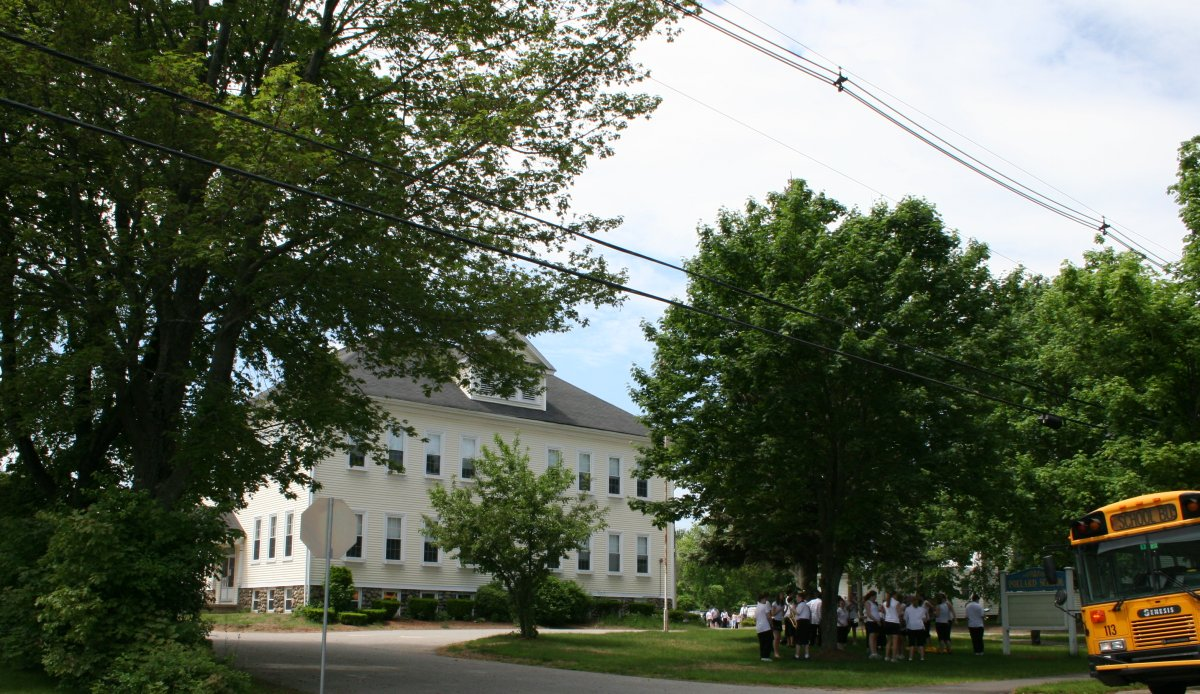 Pollard Elementary School, taken by User:Wesman83 in May 2006.